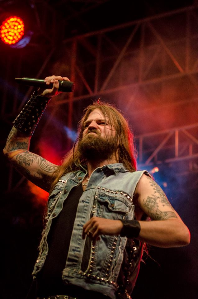 Iced earth playing in BOA - 2013